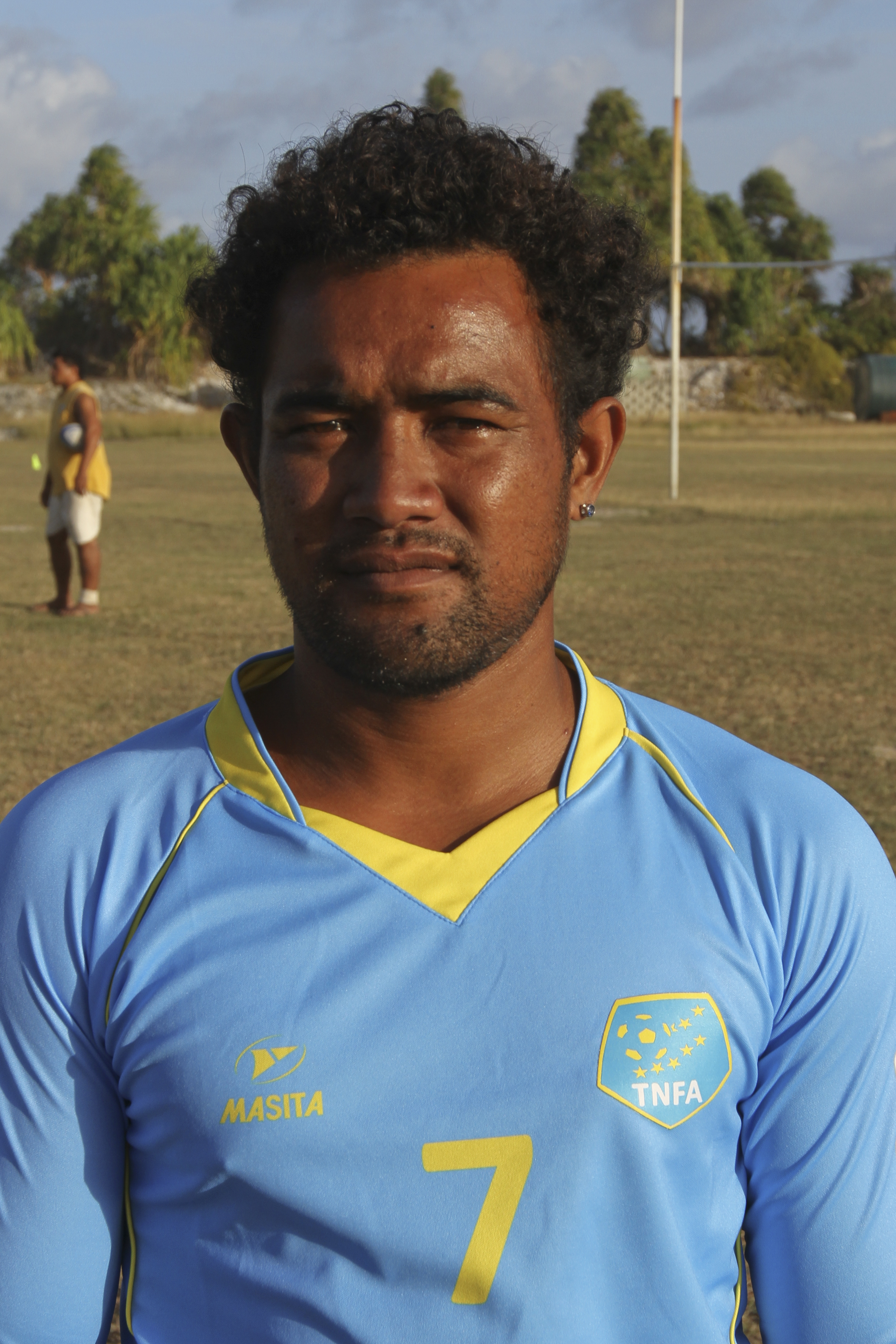 Jelly_Selau